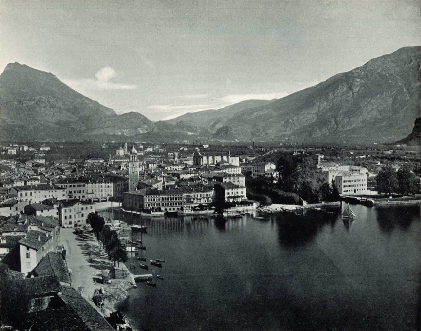 The town of Riva del Garda (de: Riva) around 1898